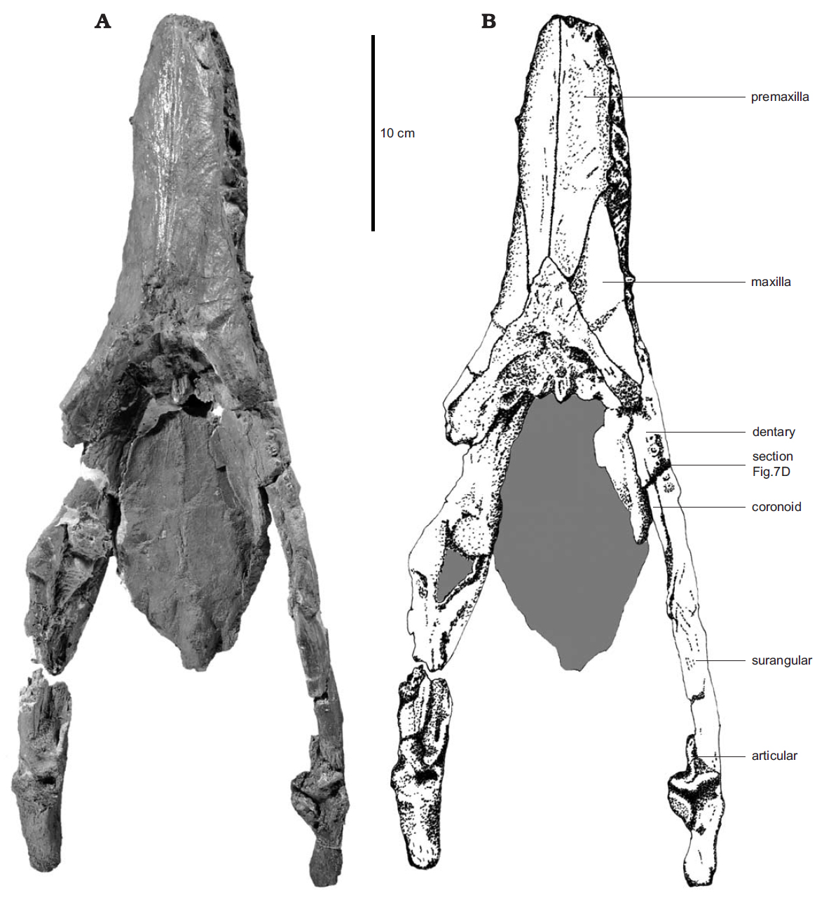 Cryonectes neustriacus MAE 2007.1.1(J), holotype; Upper Pliensbachian, Calvados, France